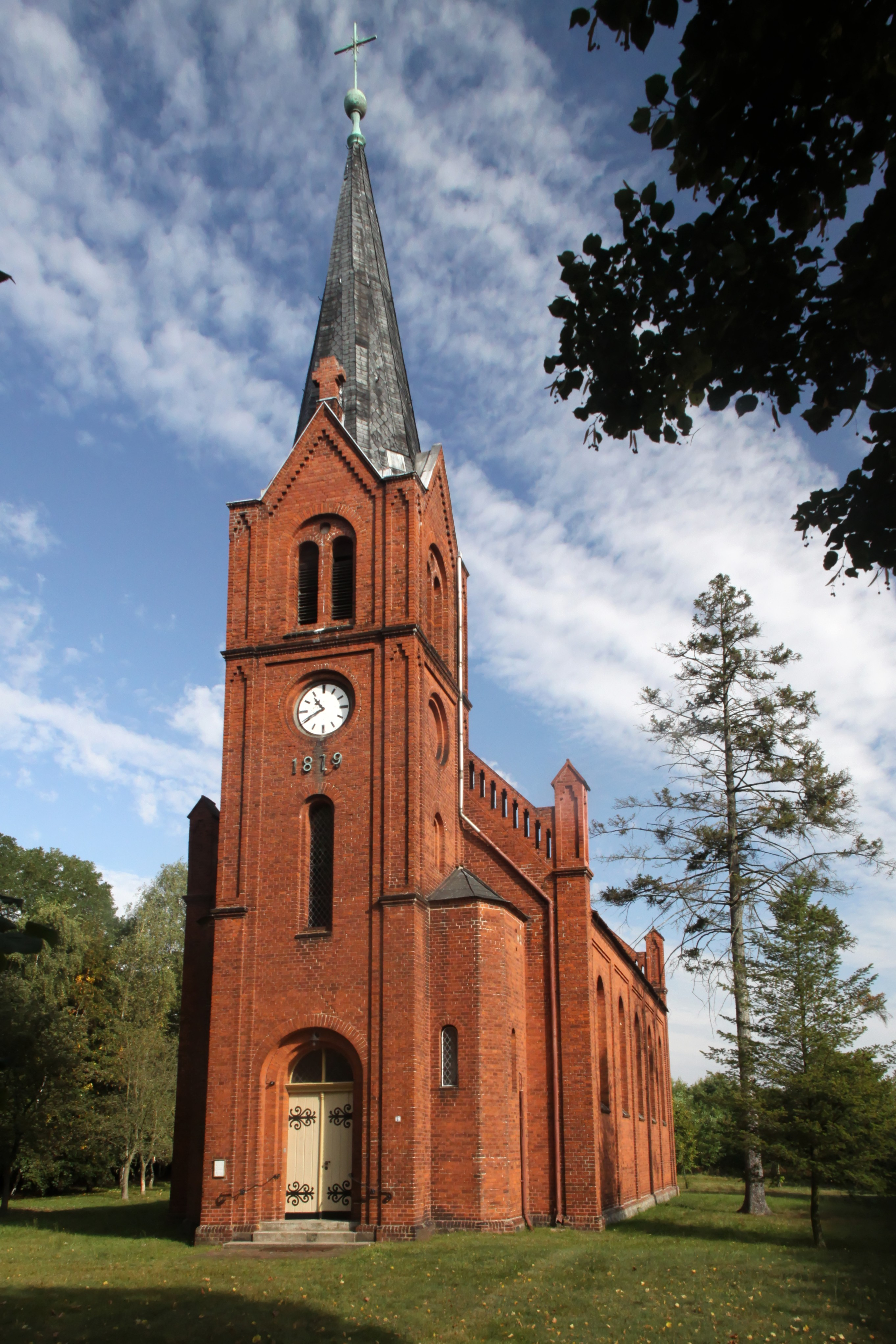 Groß Breese, Alley of Gross Breese: Village Church Evangelic Church was build in the year 1879.